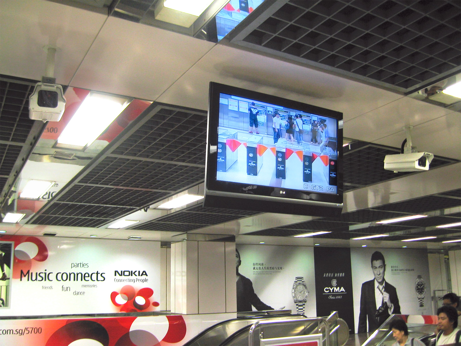 Security features of City Hall MRT Station. CCTVs monitor every part of the station. Plasma displays on the station concourse show real-time video feed from those CCTVs to the public.